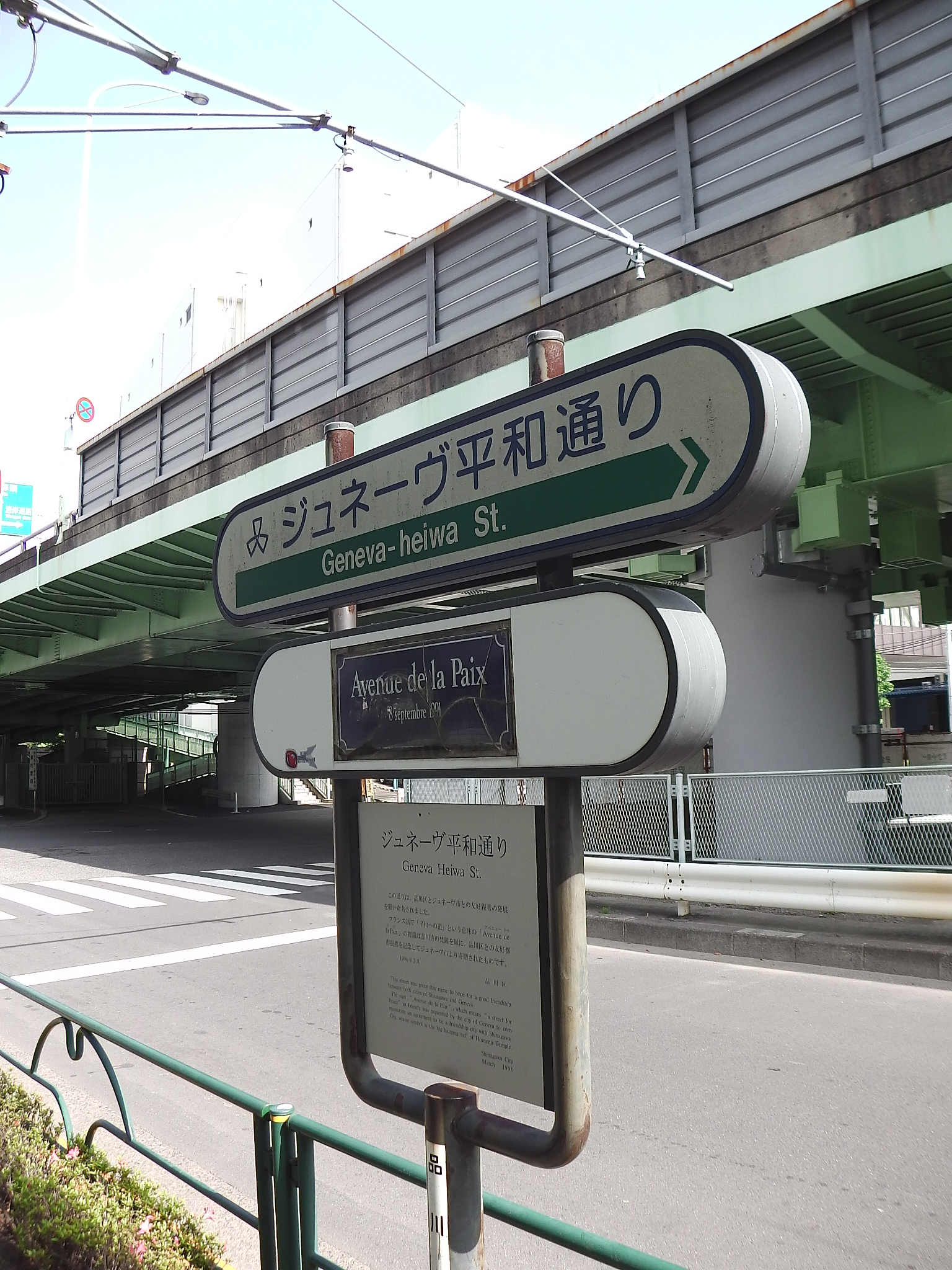 Geneva Heiwa Street (also called "Avenue de la Paix" in French) in Shinagawa Ward, Tokyo, Japan.